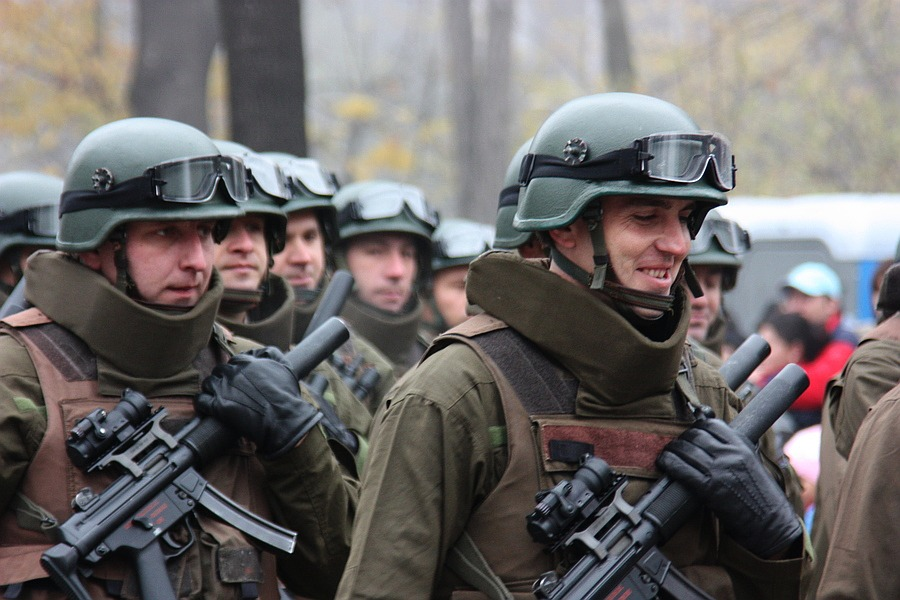 Romanian Anti-Terror-soldiers on the Romanian National Day parade on December 1st, at the Triumph Arch in Bucharest.